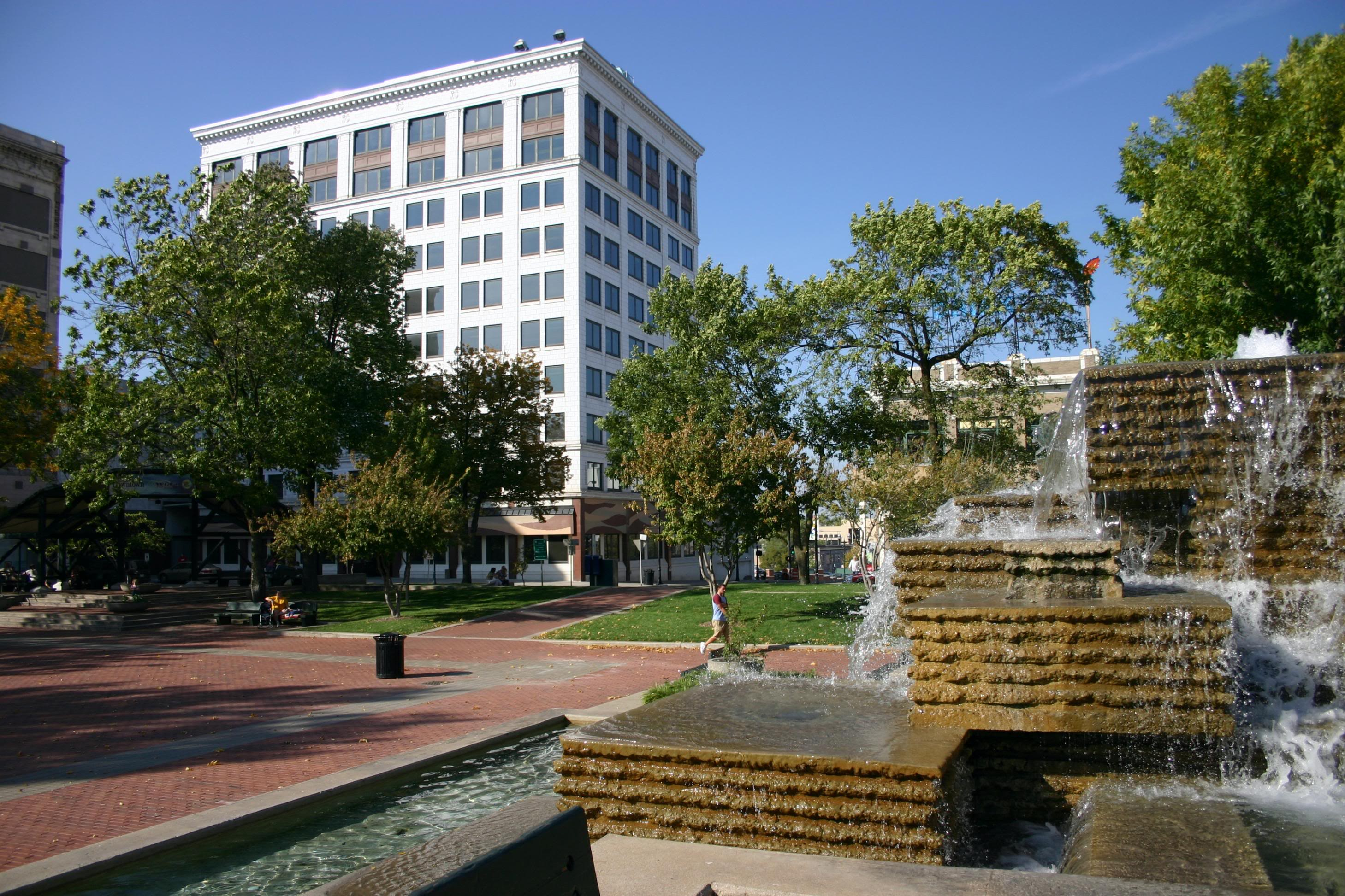 Park Central Square in downtown Springfield, Missouri with Landers Building in the background.